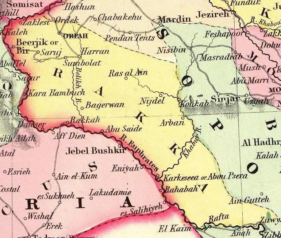 Rakka Turkey In Asia And The Caucasian Provinces Of Russia. Published By J.H. Colton & Co. No. 172 William St. New York. Entered ... 1855 by J.H. Colton & Co. ... New York. No. 25